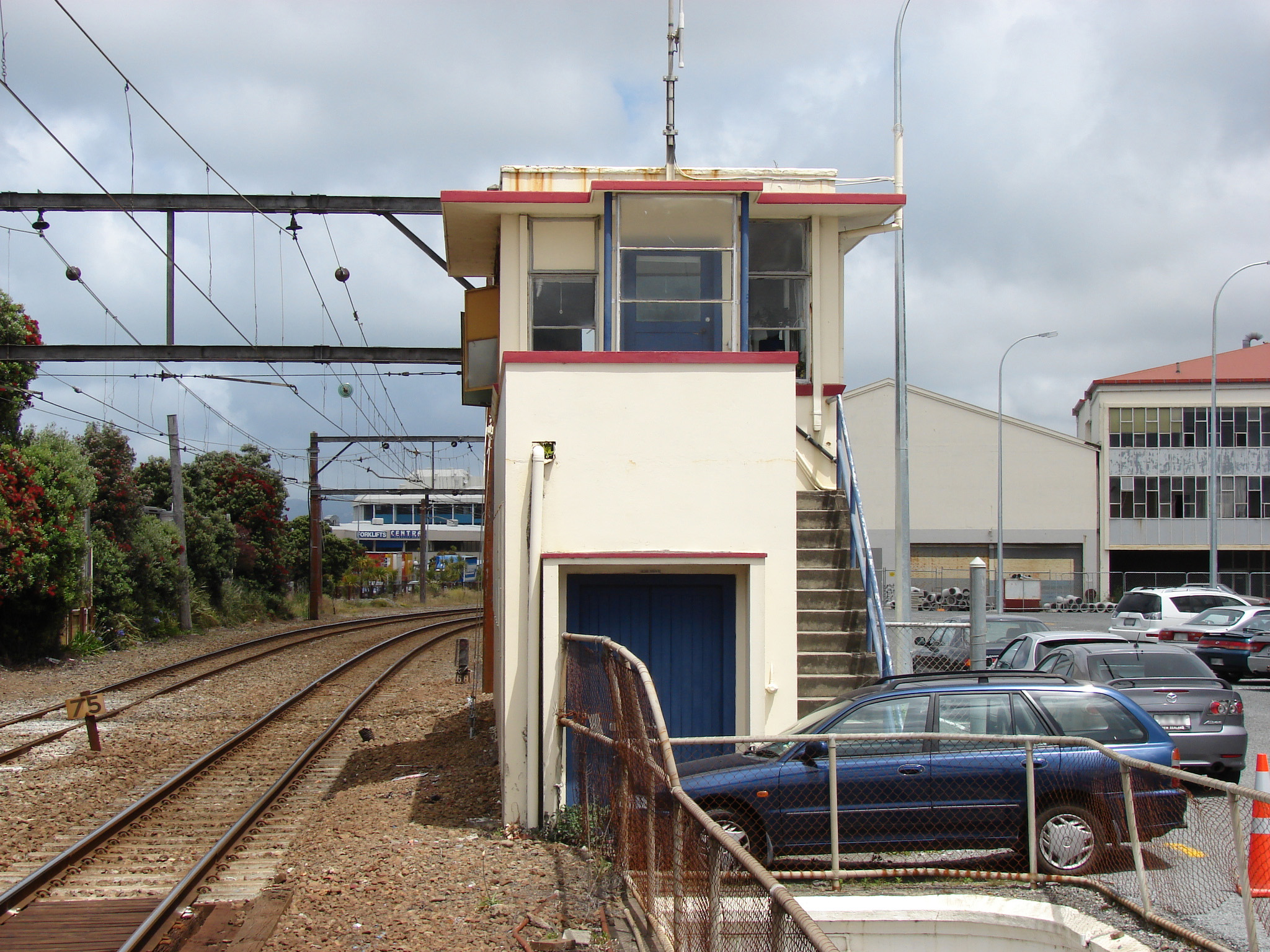 Petone railway station signal box. Photographed by Matthew25187 on 2007-12-24.